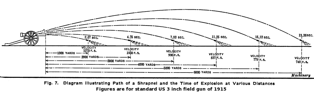 Diagram of trajectories and dispersal pattern of US 3 inch Shrapnel shell, 1915.